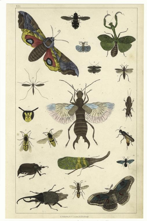 1. Sphinx ocellata. 2. Chameleon fly. 3. Peck's xenos. 4. Camel cricket. 5. Juno moth. 6. Earwig. 7. Flavipes locust. 8. Gryllatalpa locust. 9. Blatta. 10-12 Vespa vulgaris. 13. Sphex viatica. 14. Herculanea ant. 15. Fulgora candelaria. 16. Cockchafer. 17. Hercules beetle. 18. Hornet wasp. 19. Herb tipula.